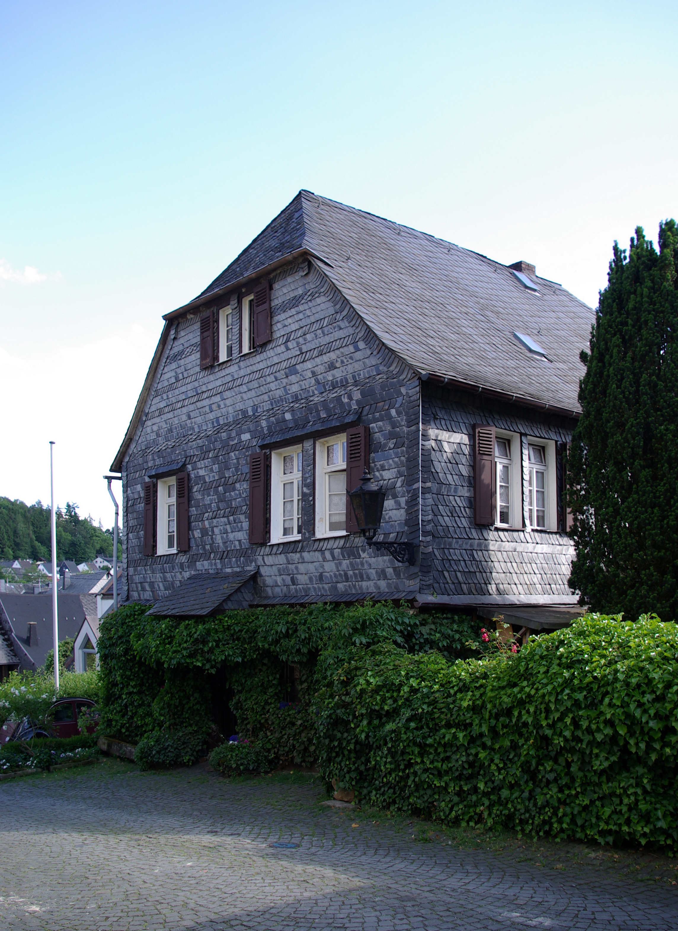 Germany, Herrstein, Slate Building